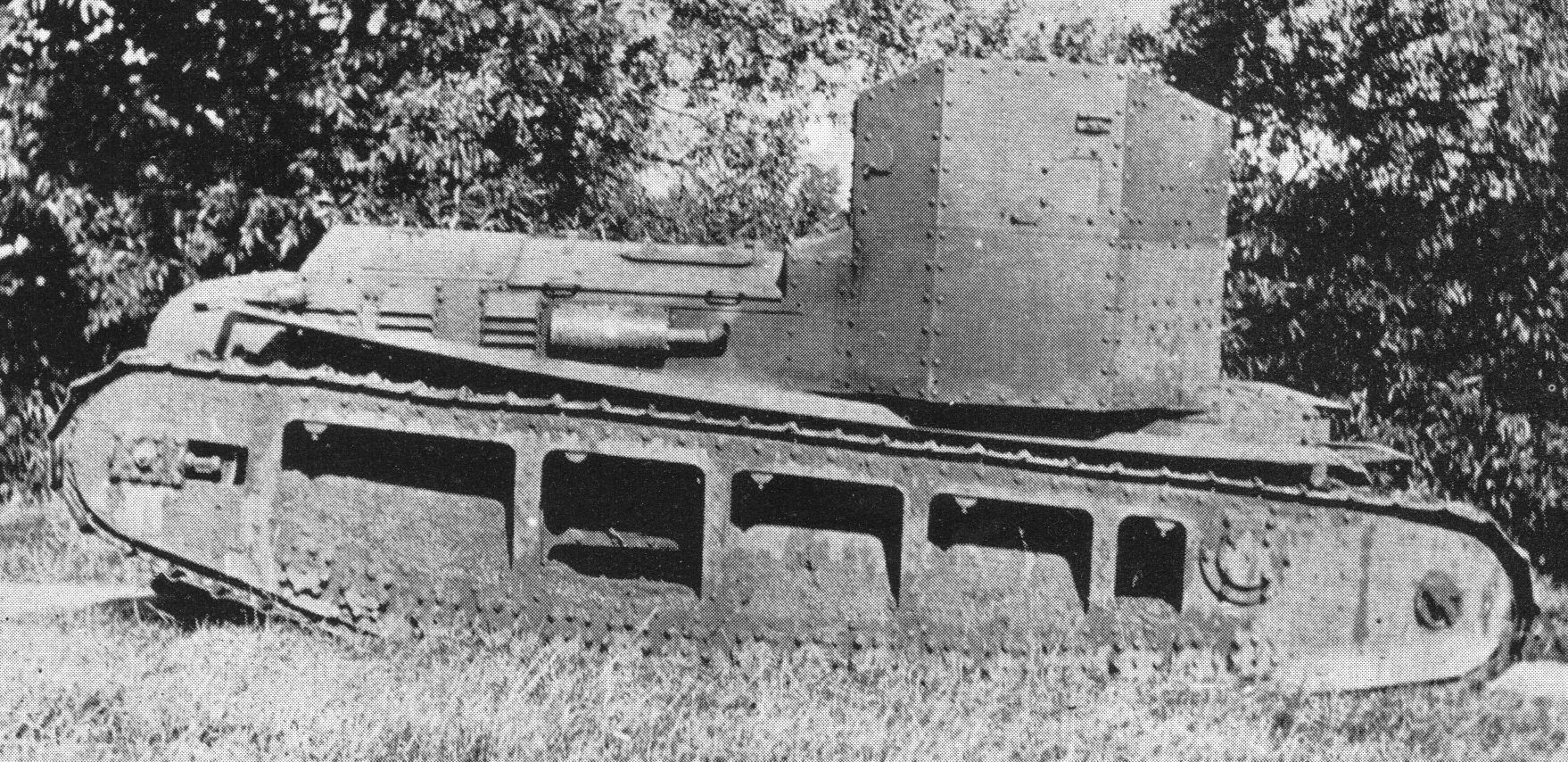 The Medium Mark A Whippet was a British tank of World War I. Intended to complement the slow Mark V tanks by using its relative mobility and speed in exploiting any break in the enemy lines. Country of origin: UK Technical information: Length: 6.10 m (20 ft) Weight: 14,300 kg (31,460 lb) Width: 2.62 m (8 ft 7 in) Powerplant: 2x 45 hp (33.6 kW) Tylor four-cylinder petrol engine Height: 2.74 m (9 ft) Range: 257 km (160 miles) Armament: Crew: 3 or 4 Armour: 5-14 mm (0.2-0.55 in) Performance: max. road speed: 13.4 km/h (8.3 mph) Armament: 2x Hotchkiss machine gun